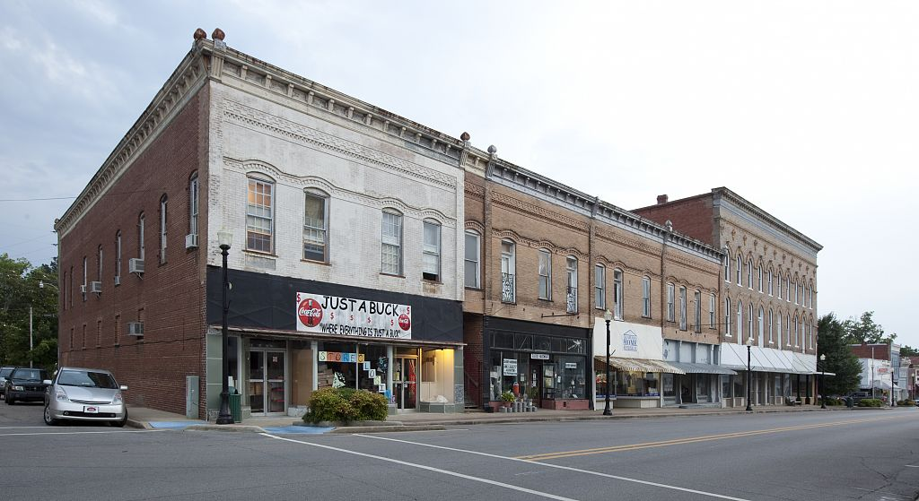 Historic buildings in the city of Greensboro, Alabama.